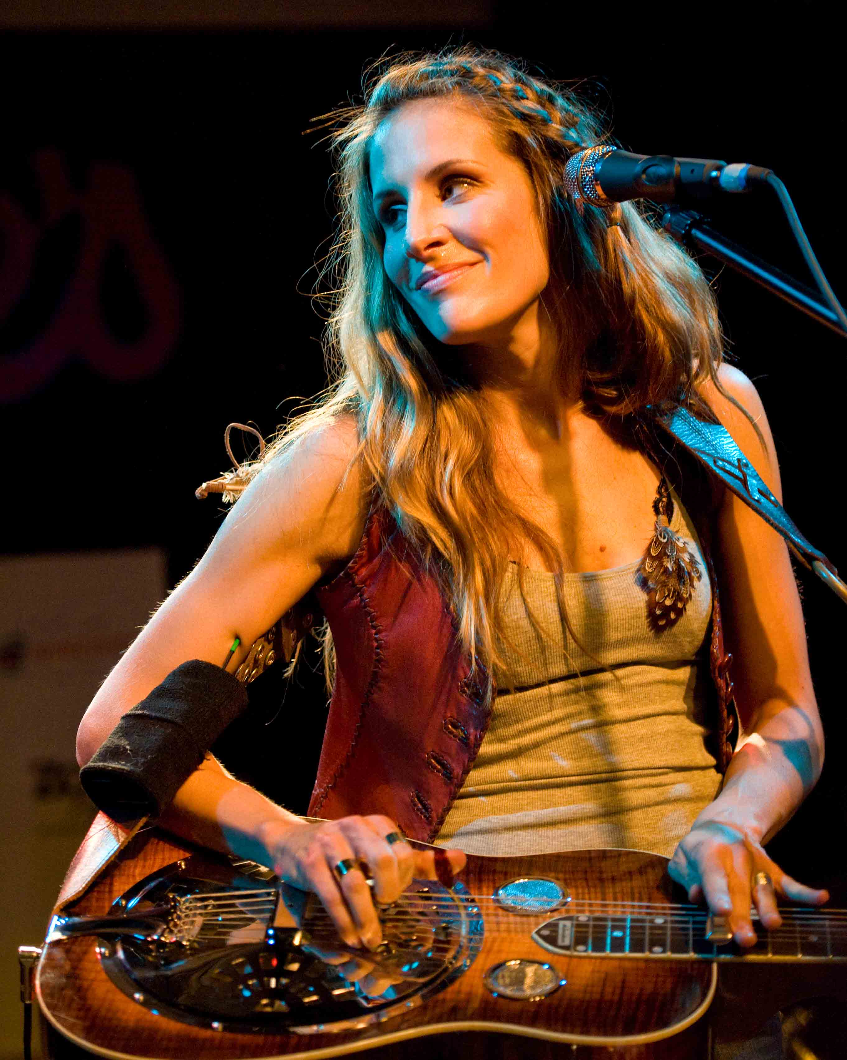 Emily Robison of the Court Yard Hounds and Dixie Chicks fame playing at Antone’s, SXSW, Austin, Texas 3-18-10